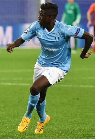 Pa Konate